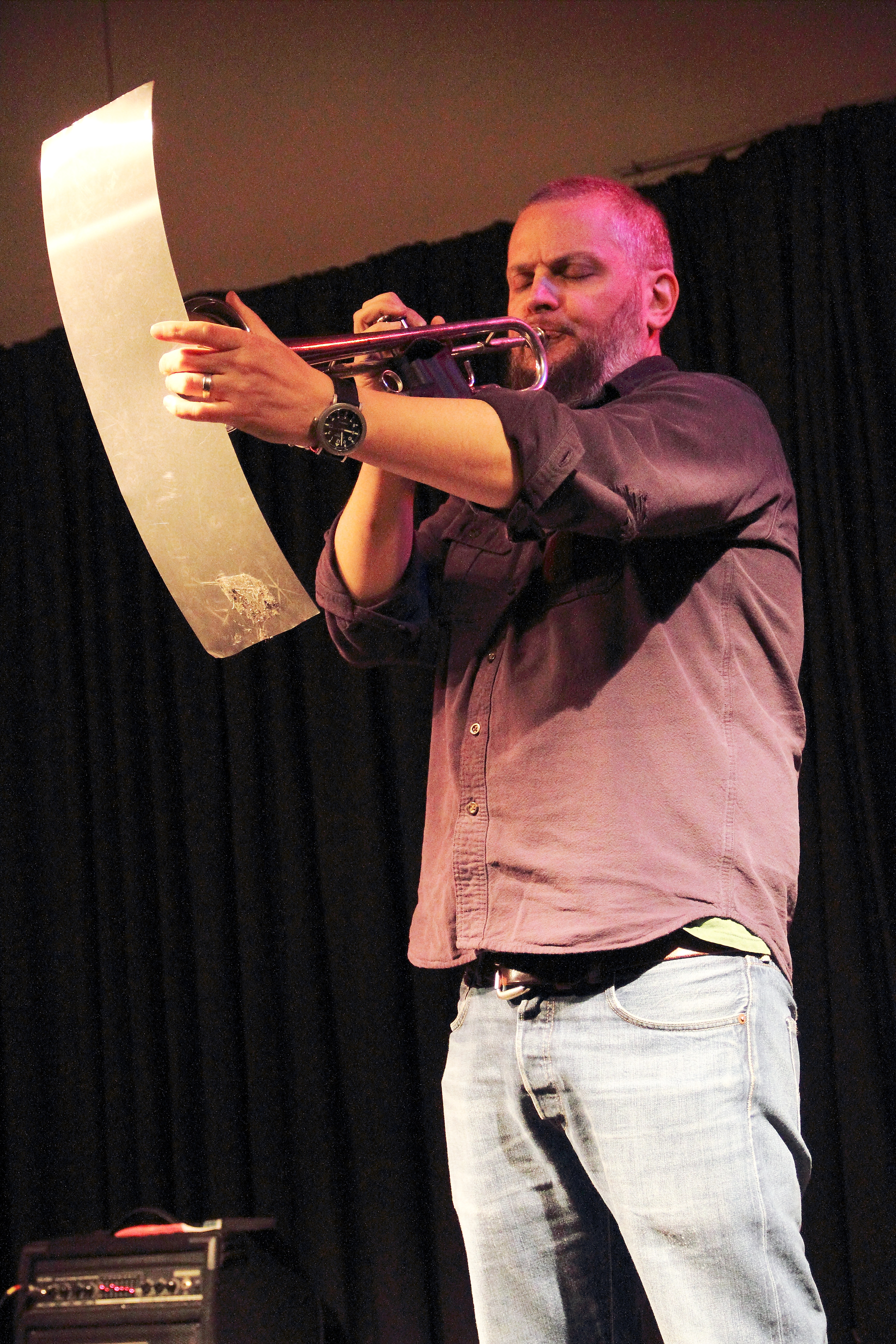 Nate Wooley (tr), Dave Rempis (tr) and Pascal Niggenkemper (db) in concert at Club W71, Weikersheim.